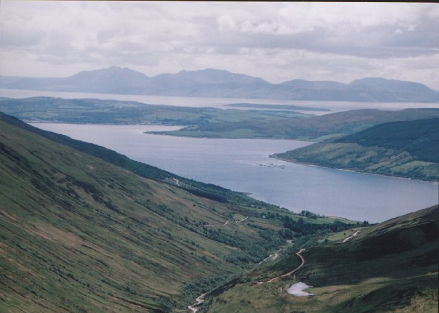 View from Green Knap by John Wallace. Inverchaolain Glen, Loch Striven, Strone Point, Bute, Inchmarnock Island and Arran.